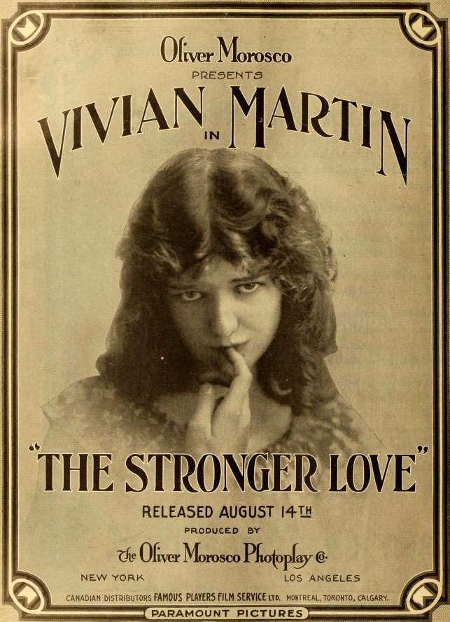 Advertisement in The Moving Picture World for the American drama film The Stronger Love (1916).